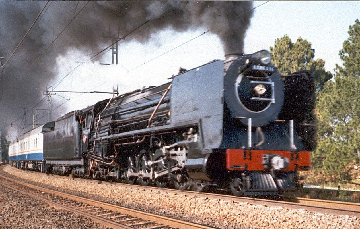 SAR Class 15F 2940 (4-8-2) "Lynette" Location: Near Princess station on the Johannesburg-Magaliesburg line